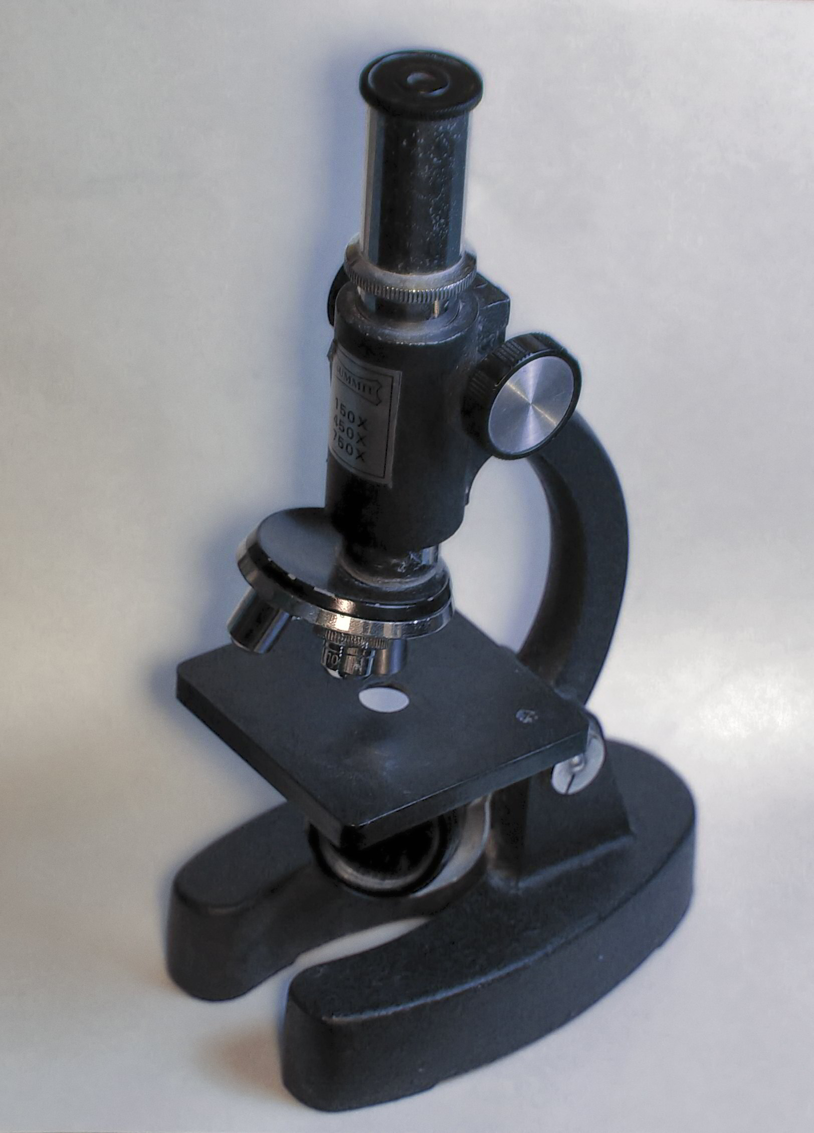 A revolving light microscope.